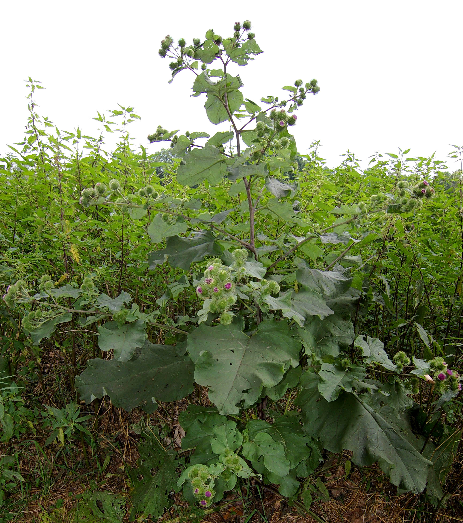 Habitus of Greater Burdock, Arctium lappa (Asteraceae).